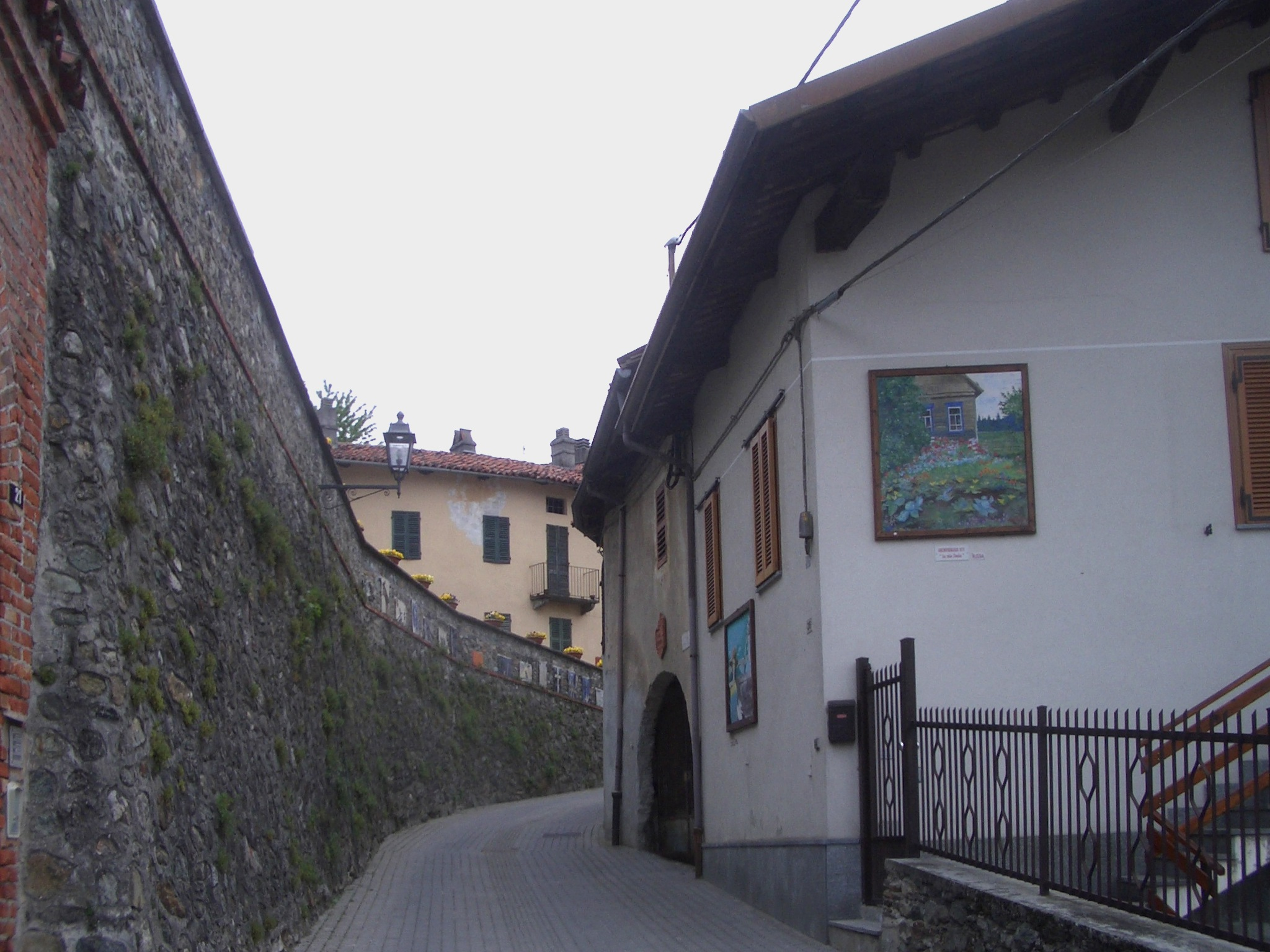 Torre Canavese, Road leading to the castle